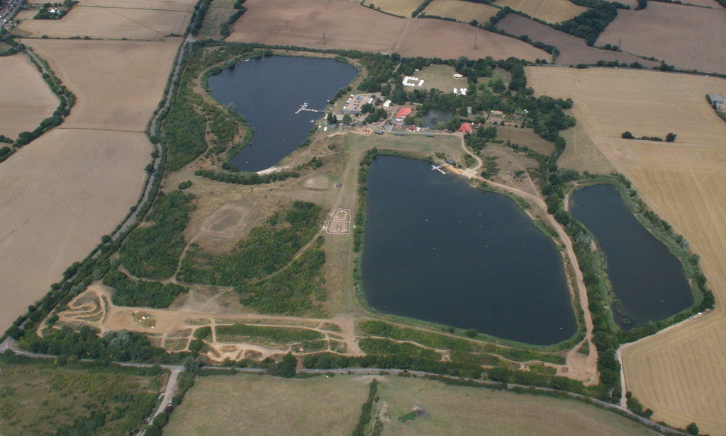 Stubbers Adventure Centre